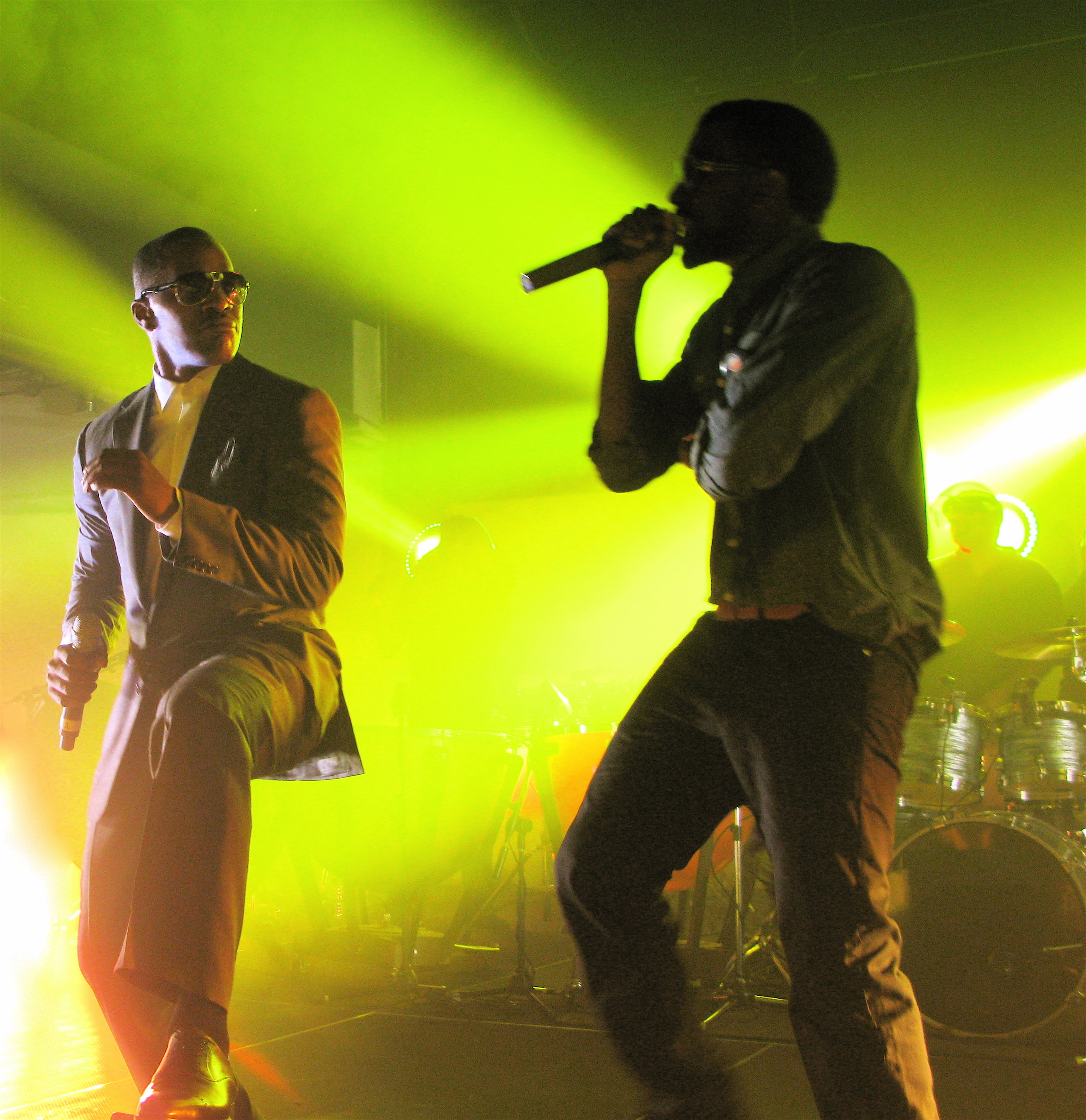 Kanye West and Jamie Foxx perform "Gold Digger"